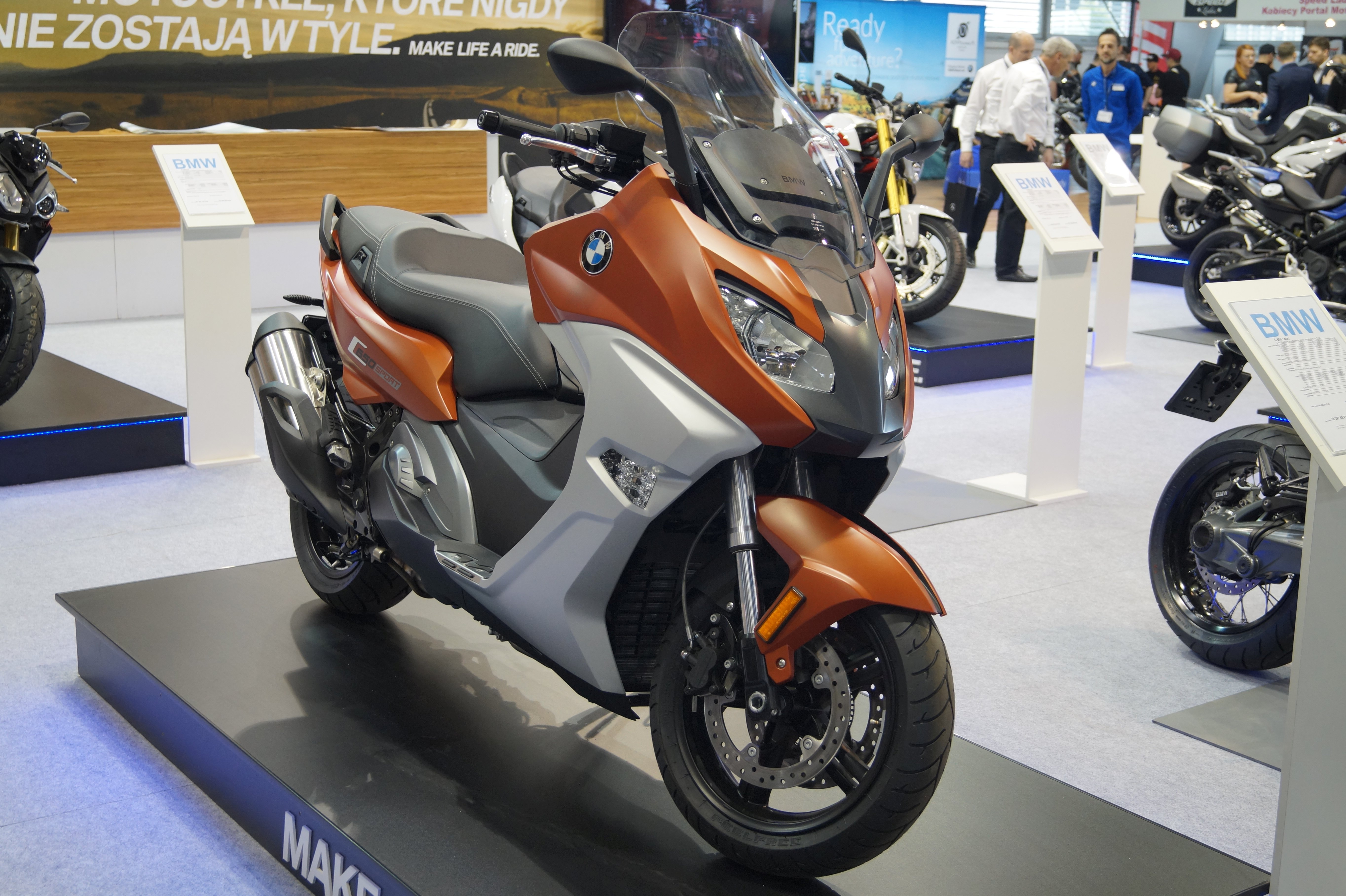 The making of this document was supported by Wikimedia Polska Association, within Wikigrant no. WG 2016-10. English | polski | +/− BMW C650 Sport na Motor Show Poznań 2016